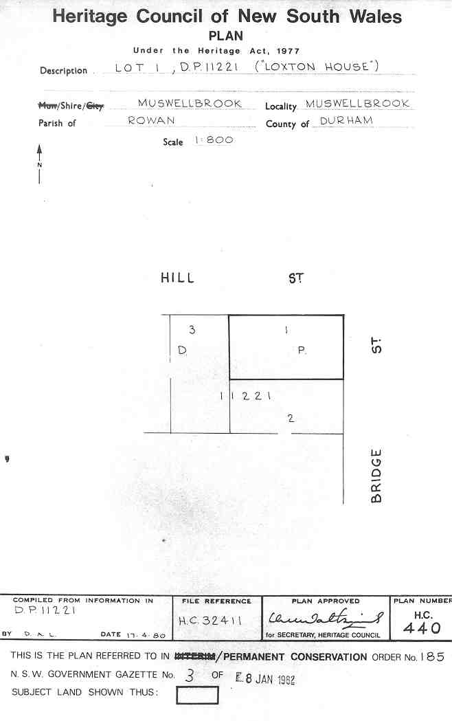 Loxton House: PCO Plan Number 185